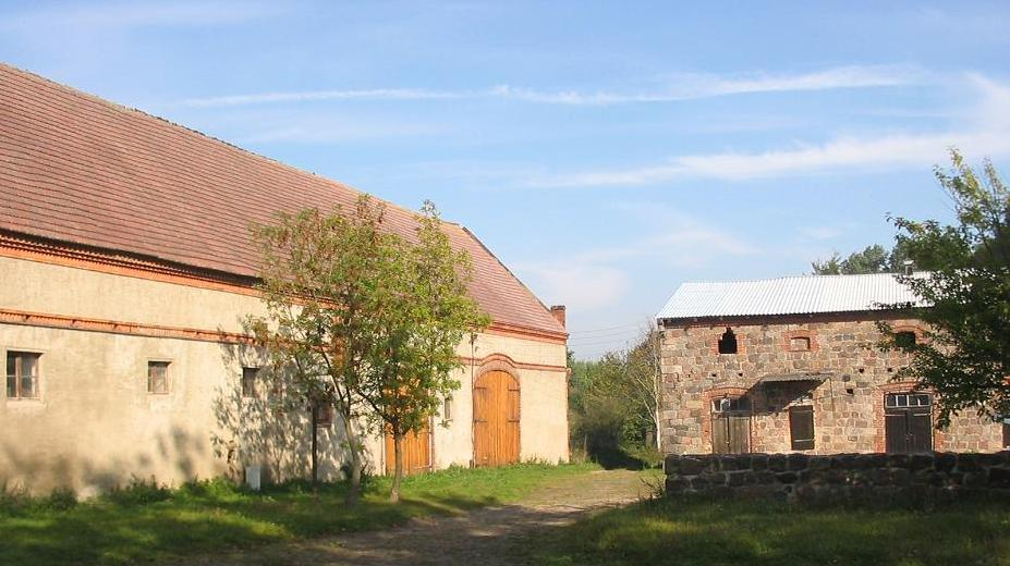 Estate Klein Glien, Klein-Glien is a part of Hagelberg. The village Hagelberg again is a part of the town Belzig in the district Potsdam Mittelmark, state Brandenburg, Germany. The village appertains to the nature park Naturpark Hoher Fläming.